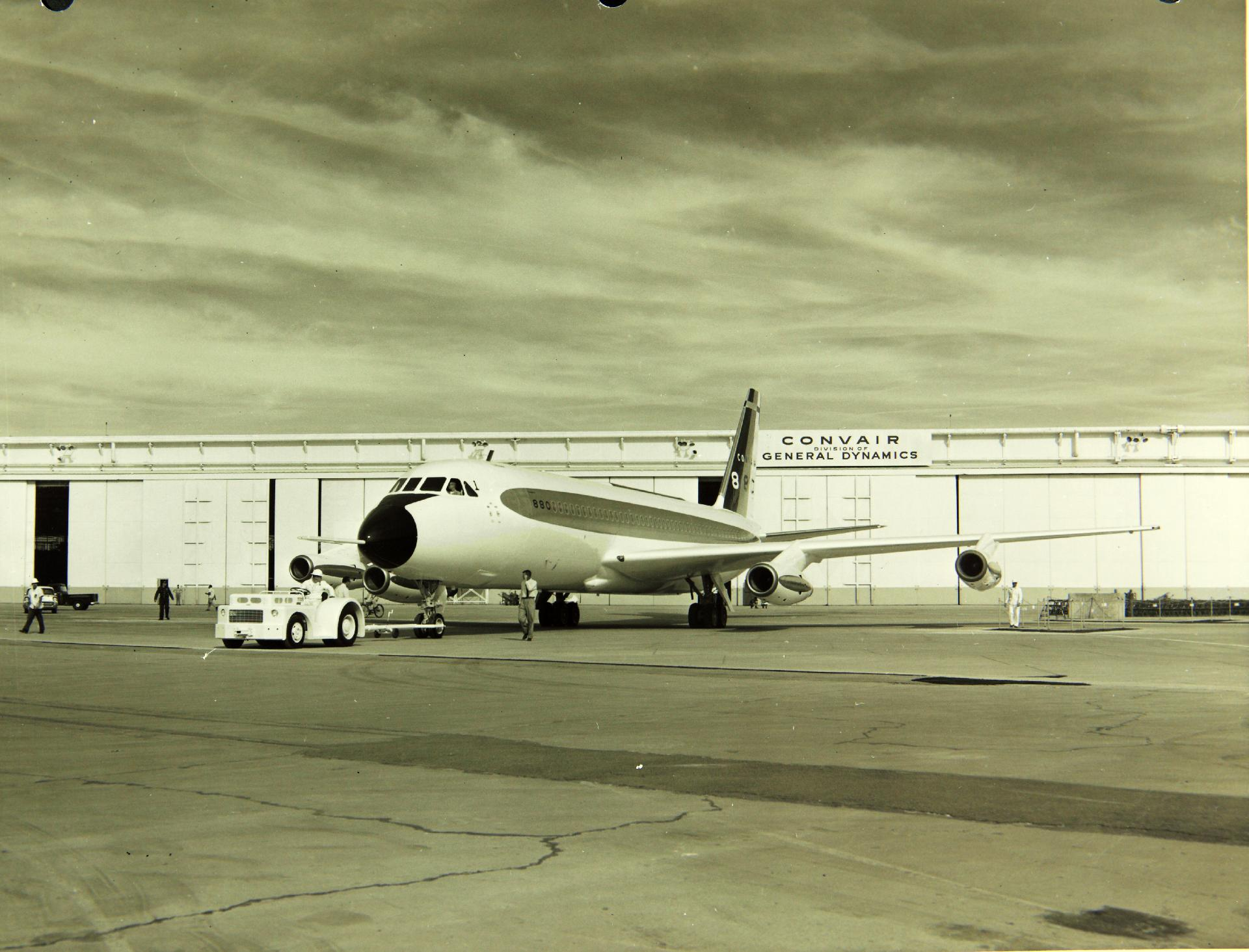 Catalog #: 01_00082994 Title: Convair , 880 Corporation Name: Convair Additional Information: USA Designation: 880 Tags: Convair , 880 Repository: San Diego Air and Space Museum Archive